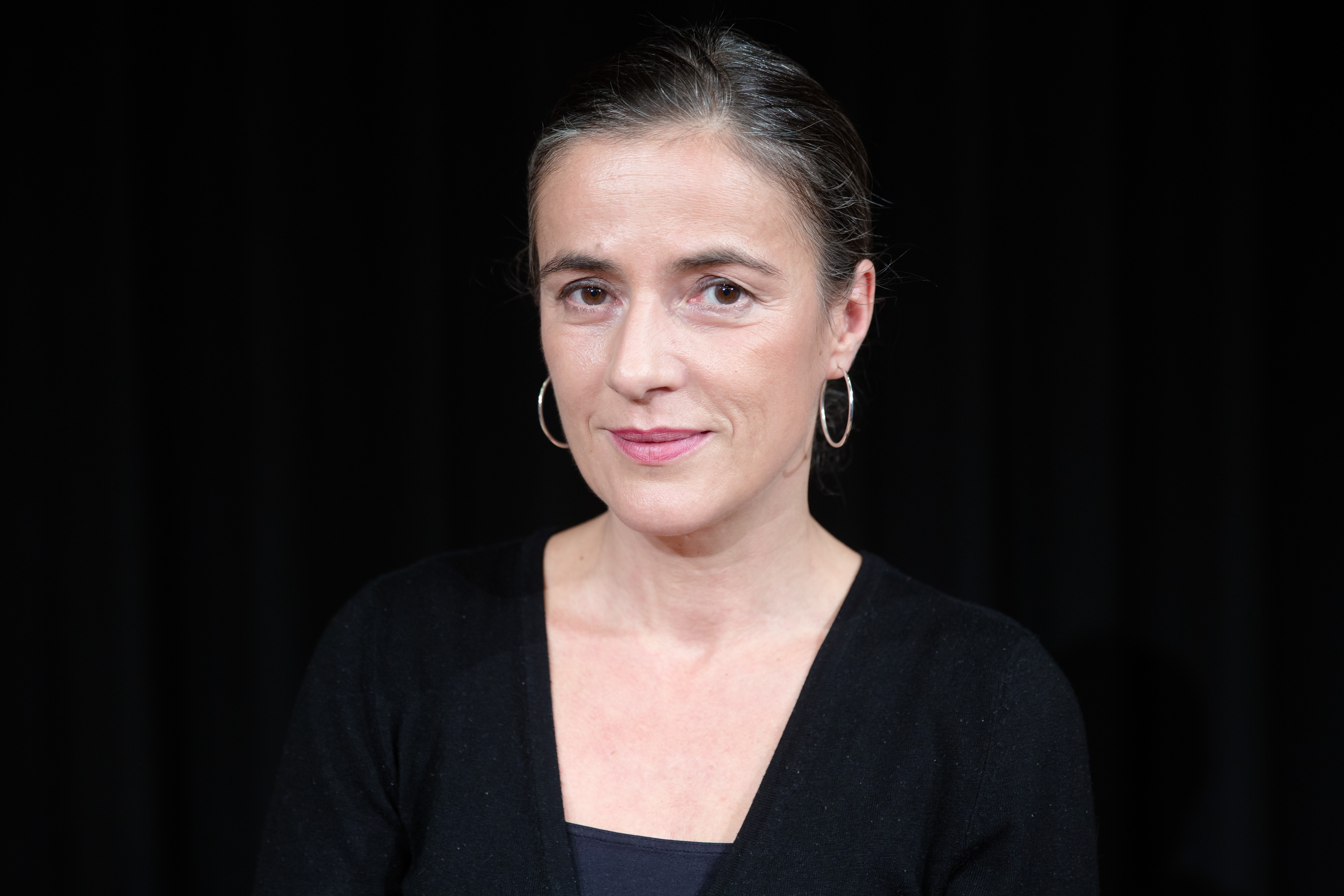 Mercedes Echerer, guest at the Austrian Cabaret Award 2015 at Urania in Vienna, Austria.